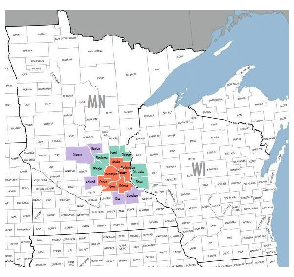 Minneapolis-Saint Paul Combined Statistical Area, metropolitan area and urban area. Temporary image. Please replace if you have a better map.